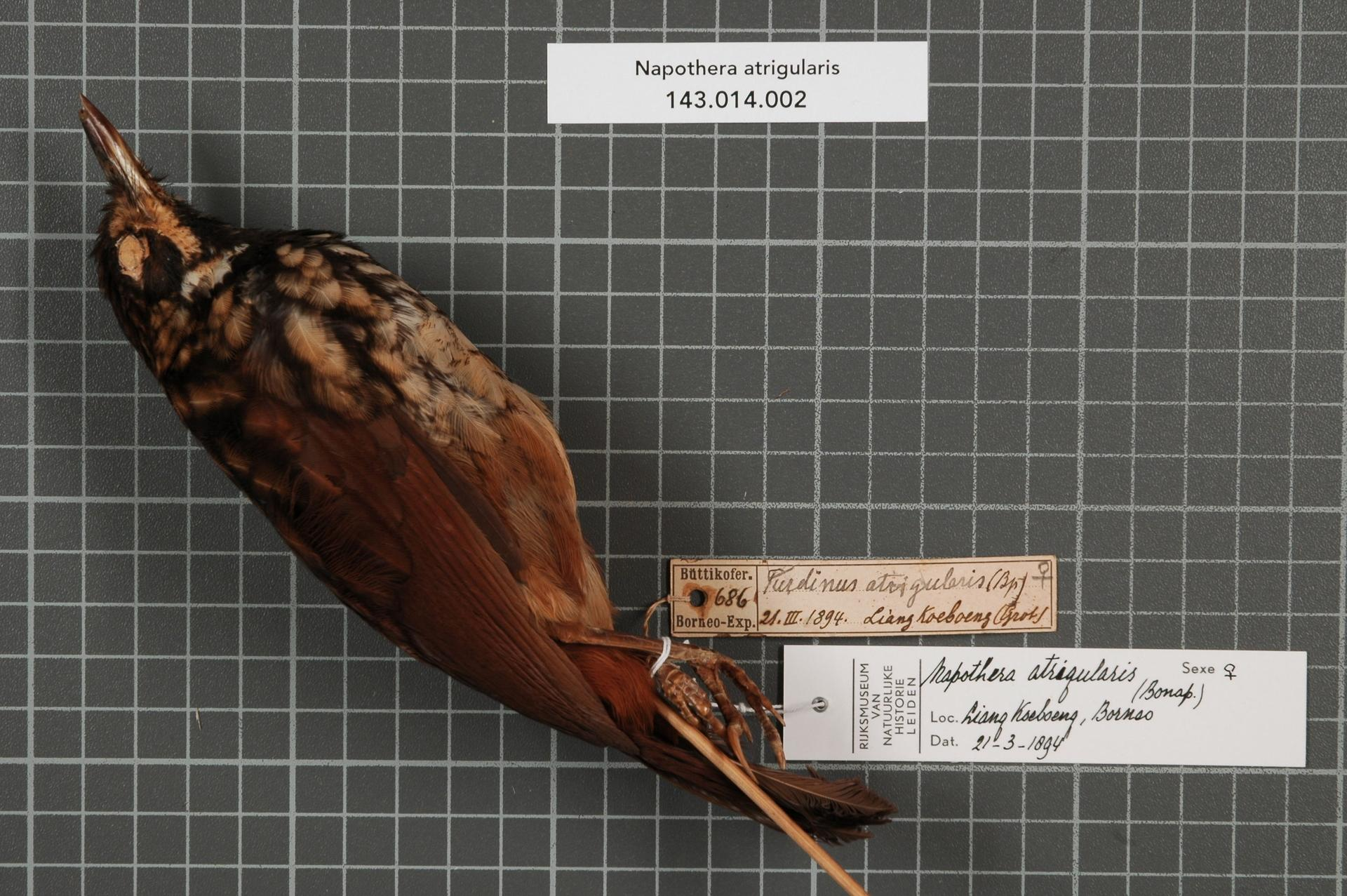 Napothera atrigularis (Bonaparte, 1850)